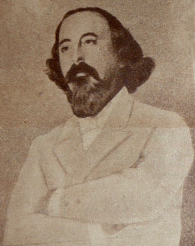 Published circa 1950.